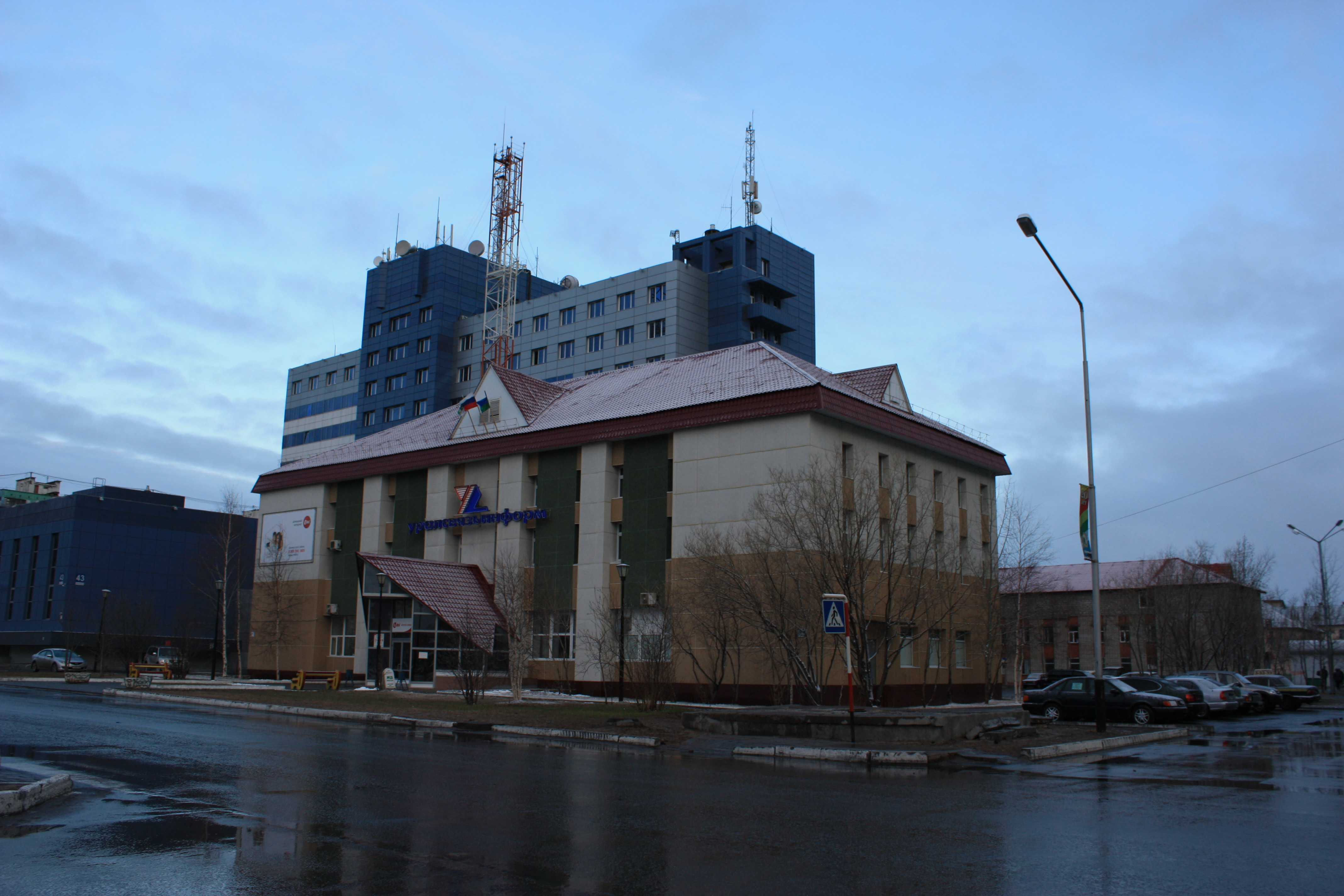 Raduzhny, Khanty-Mansi Autonomous Okrug, Russia